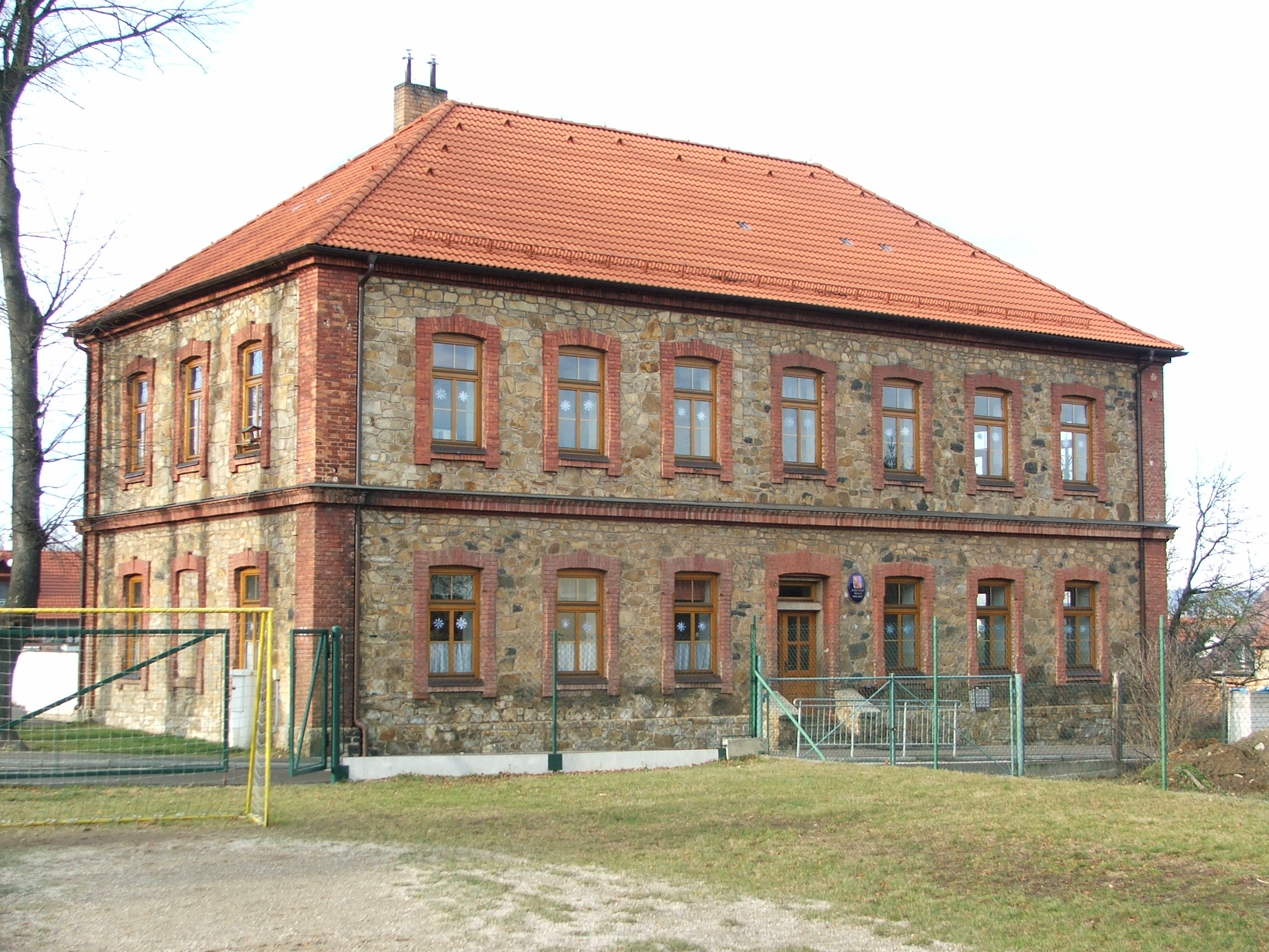 School in Holubov, Czech Republic.